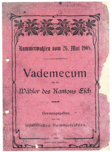 Publication by the socialist group in the Luxembourg Parliament for the canton of Esch, at the occasion of the parliamentary elections of 26 May 1908.